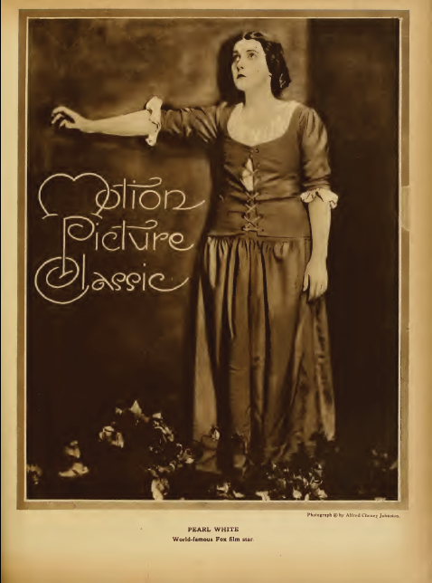 Pearl White Motion Picture Classic 1920